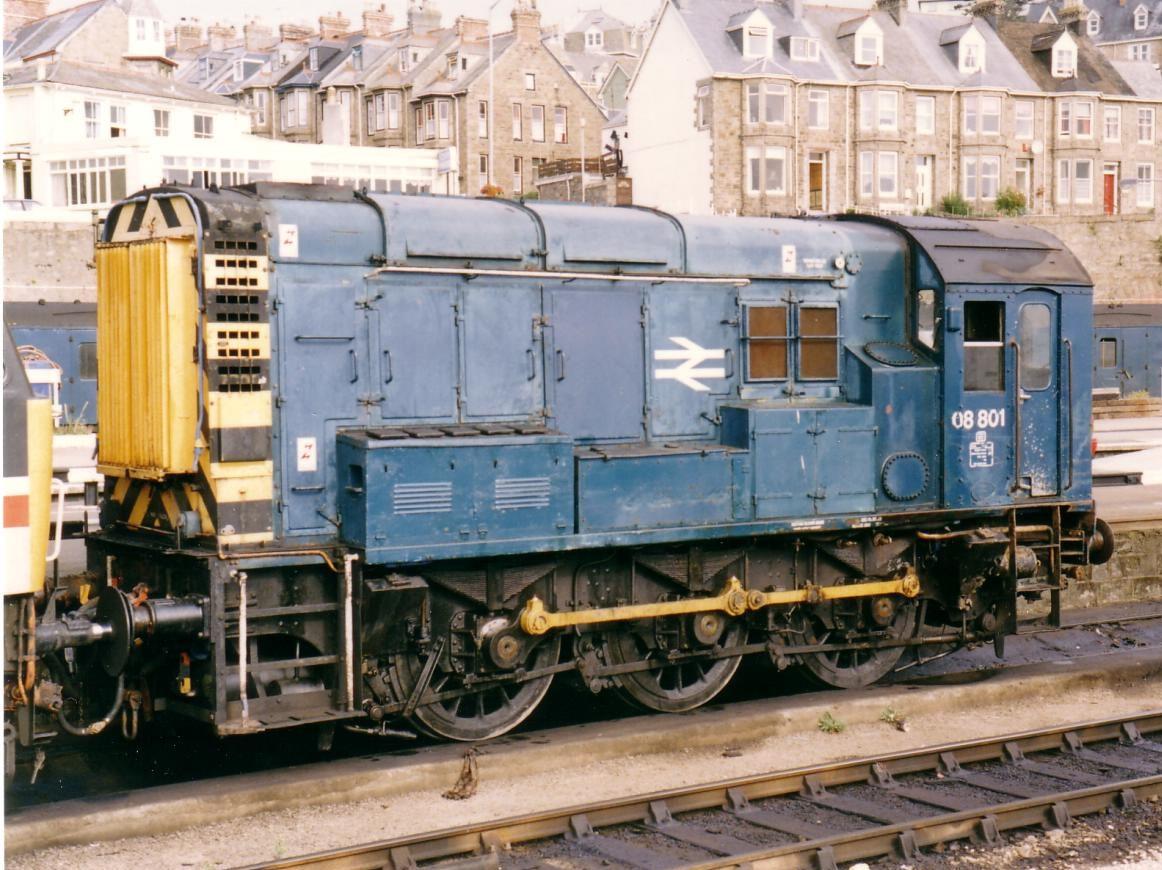 The British Rail (BR) Class 08 is a class of diesel-electric shunting locomotive. From 1953 to 1962, 996 locomotives were produced, making it the most numerous of all British locomotive classes. July 1990 47538 was involved in a collision with Class 08 08801 at Penzance. Although only sustaining superficial damage 47538 was, after a period in store at Exeter, withdrawn. However it was not until nearly 7 years latert that it was finally scrapped. 08801 has also been scrapped June 2000.